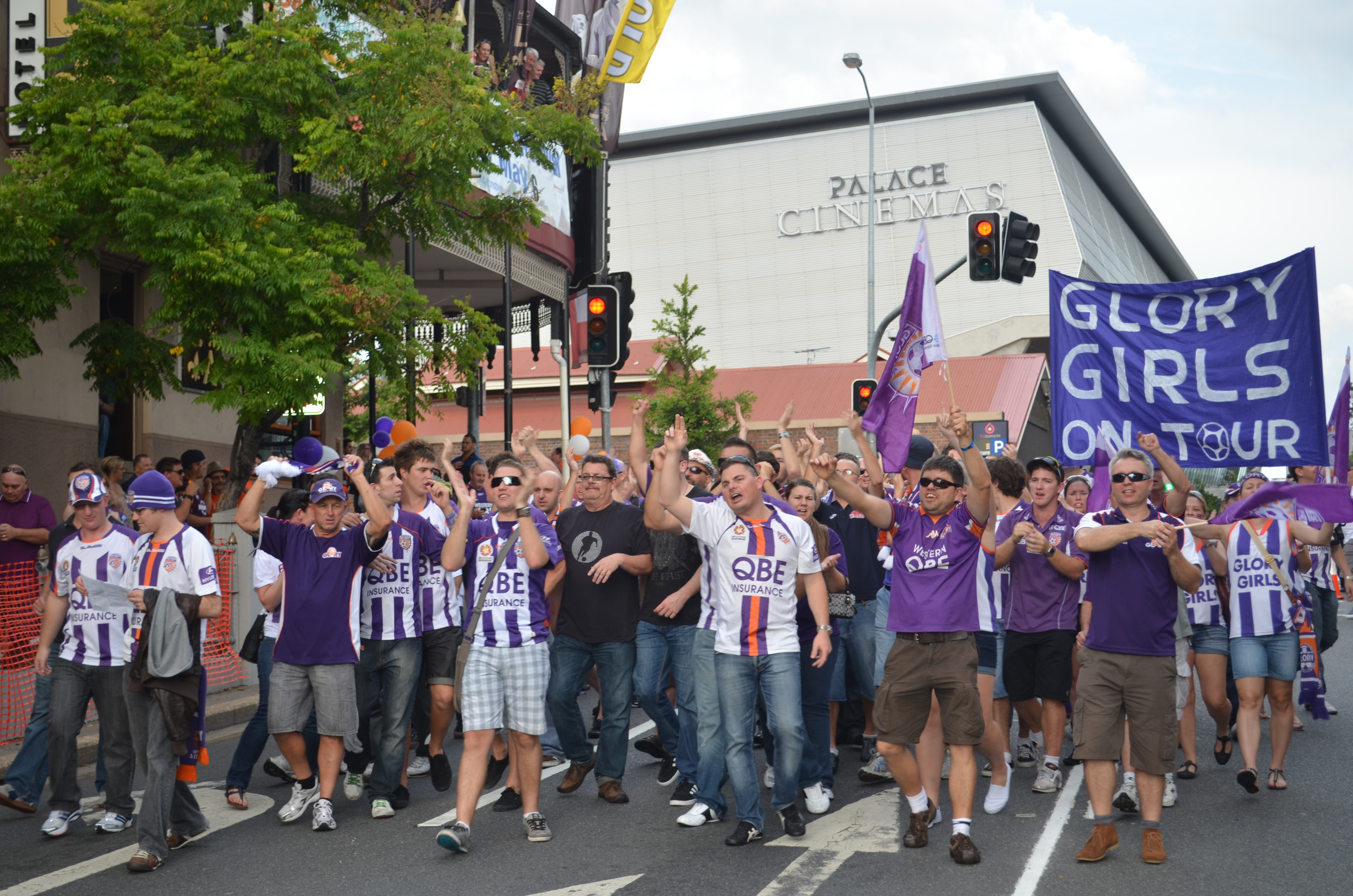 Orange Sunday II, A-League Grand Final, April 22 2012.